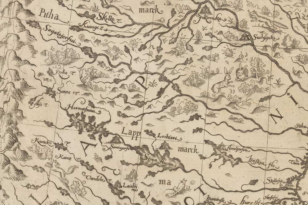 Swedish Pite Sami district on Anders Bure's map of the Nordic countries from 1626, Orbis arctoi nova et accurata delineatio. The two large lakes are Hornavan and Storavan in the Skellefte River. The tents symbolize the four historic Sami communities of Pite Sami district, Luokta, Semisjaur, Arvidsjaur and Lais. The latter was 1607 transferred to the southern Ume Sami district and the others were soon split into smaller units.